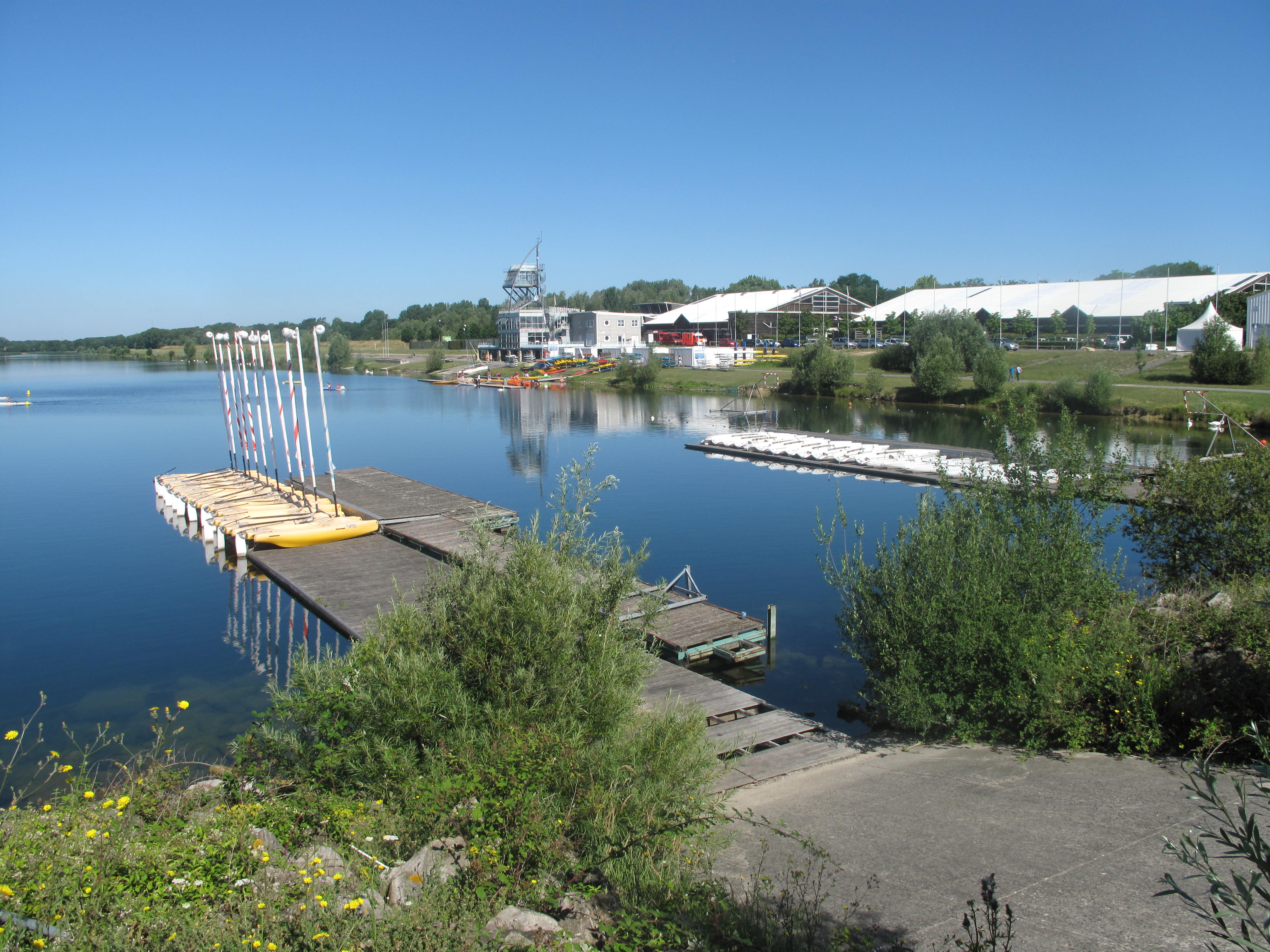 Buildings of the leisure center of Vaires-Torcy, Seine-et-Marne, France.